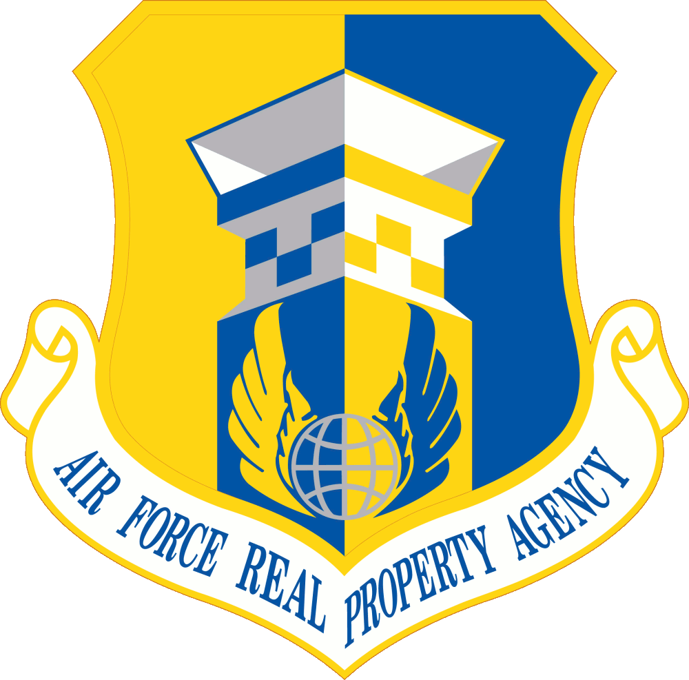 Emblem of the Air Force Real Property Agency of the United States Air Force